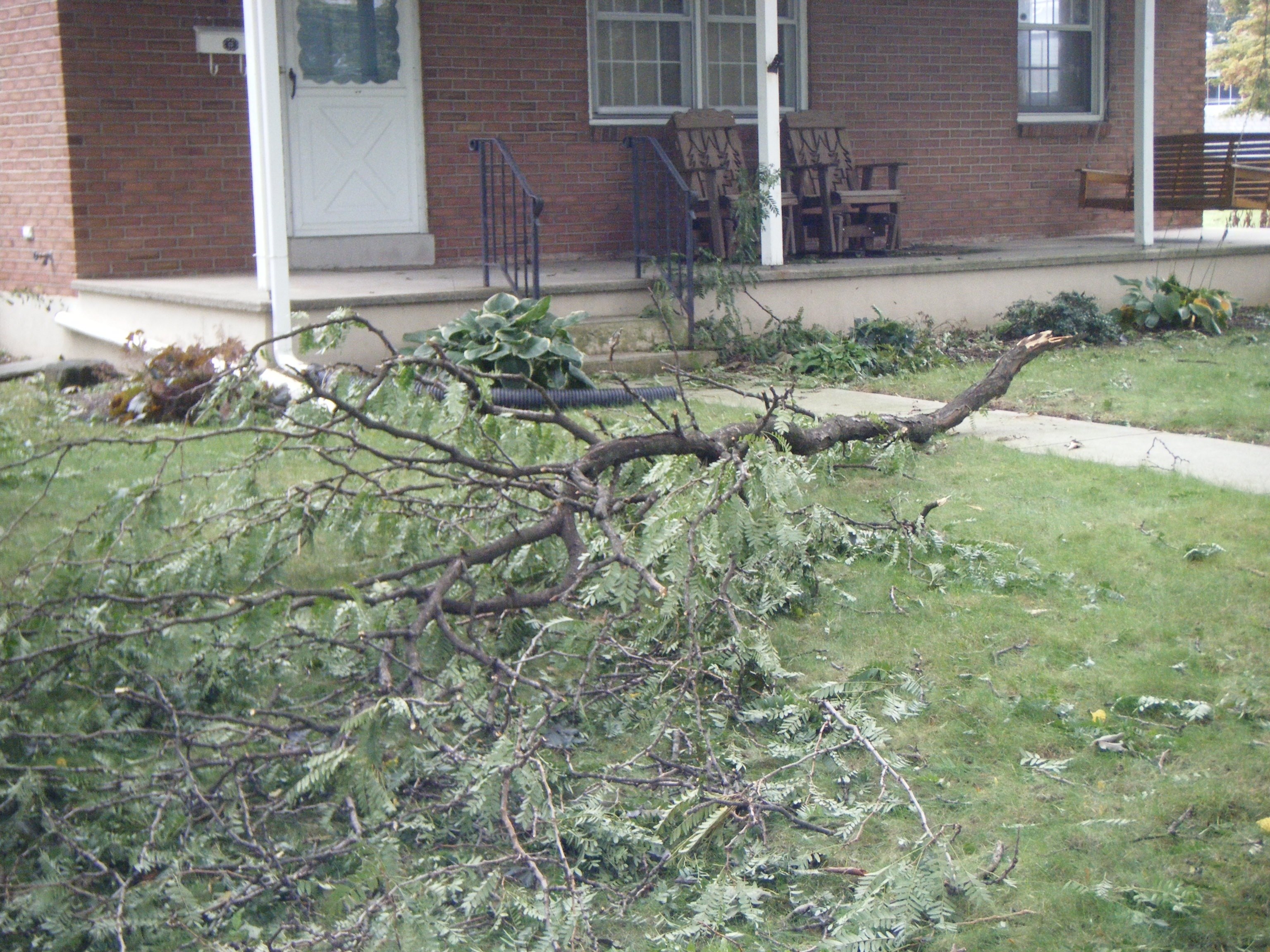 A tree branch in Kutztown, Pennsylvania that was torn down by Hurricane Irene